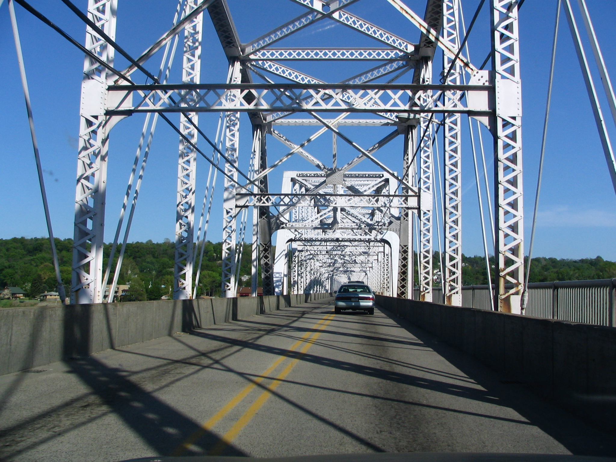 A view from the Hulton Bridge, which is the only road to Oakmont, PA from Harmar, PA.